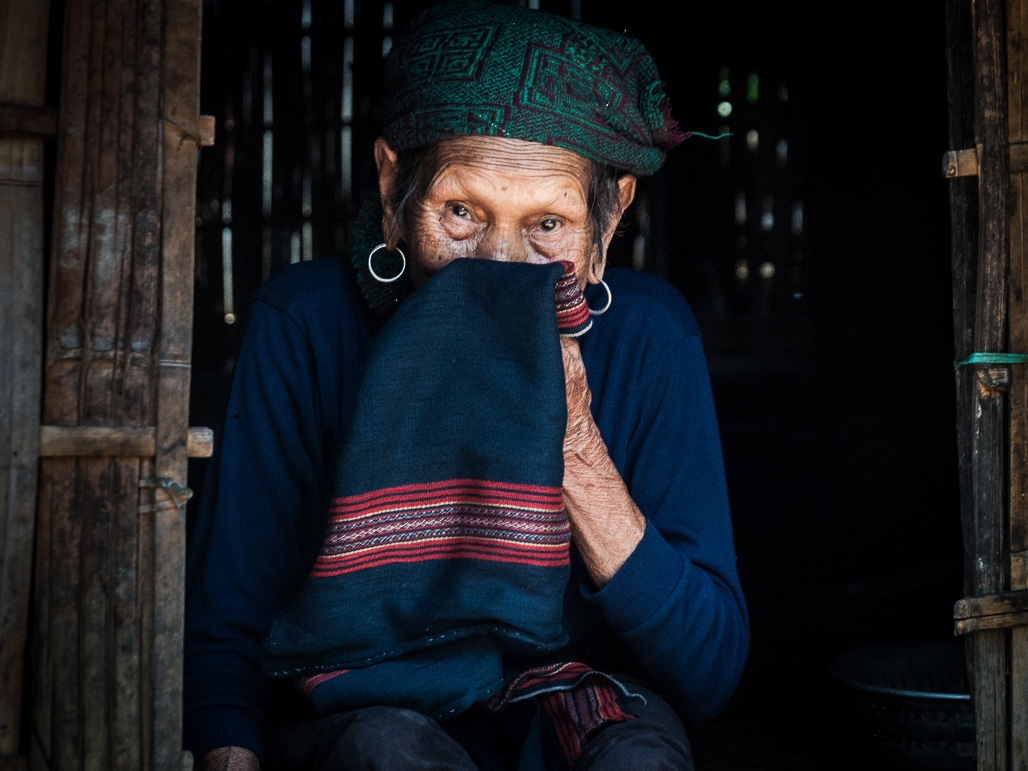 Old Co Tu Lady